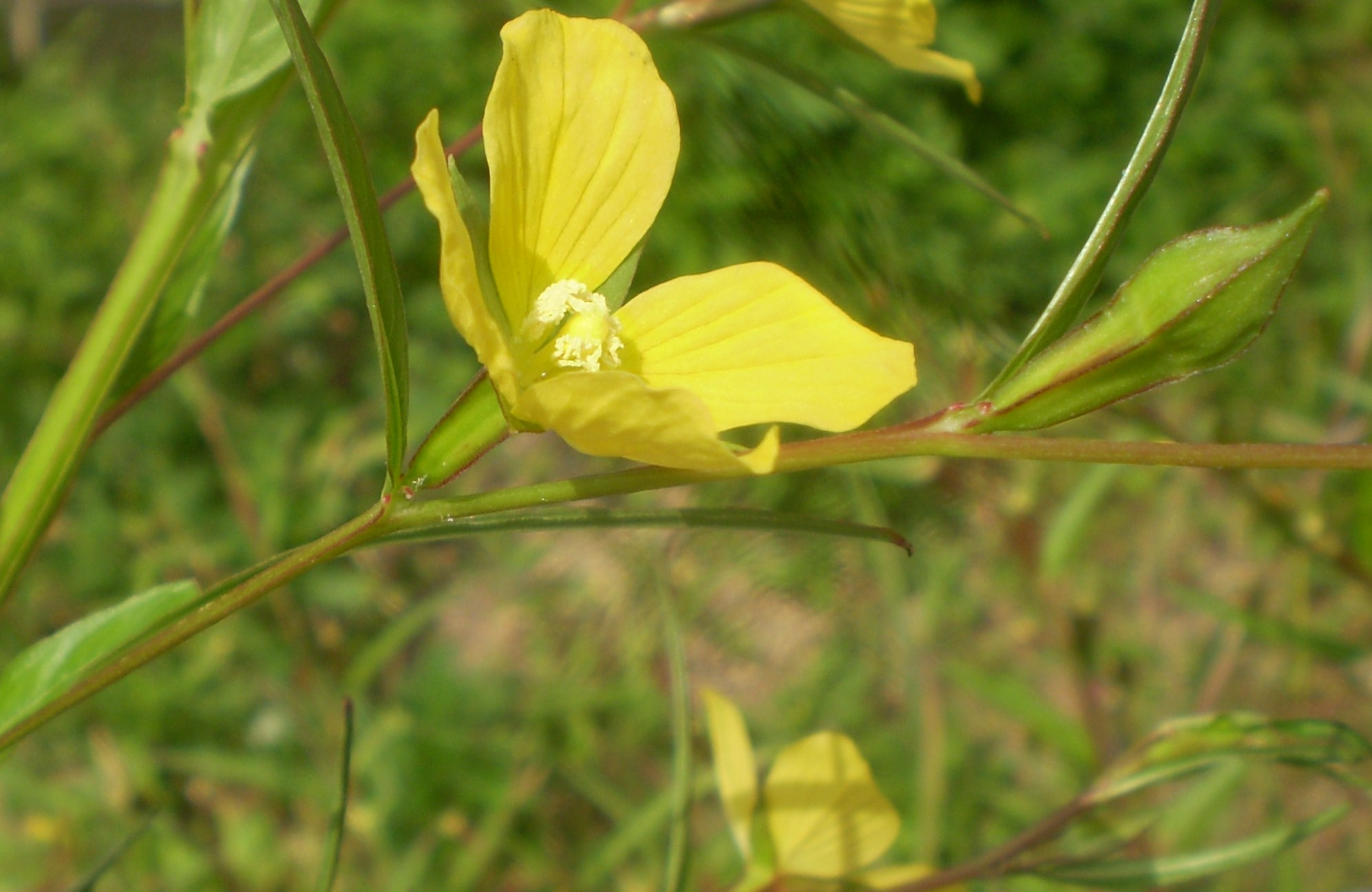 Ludwigia decurrens